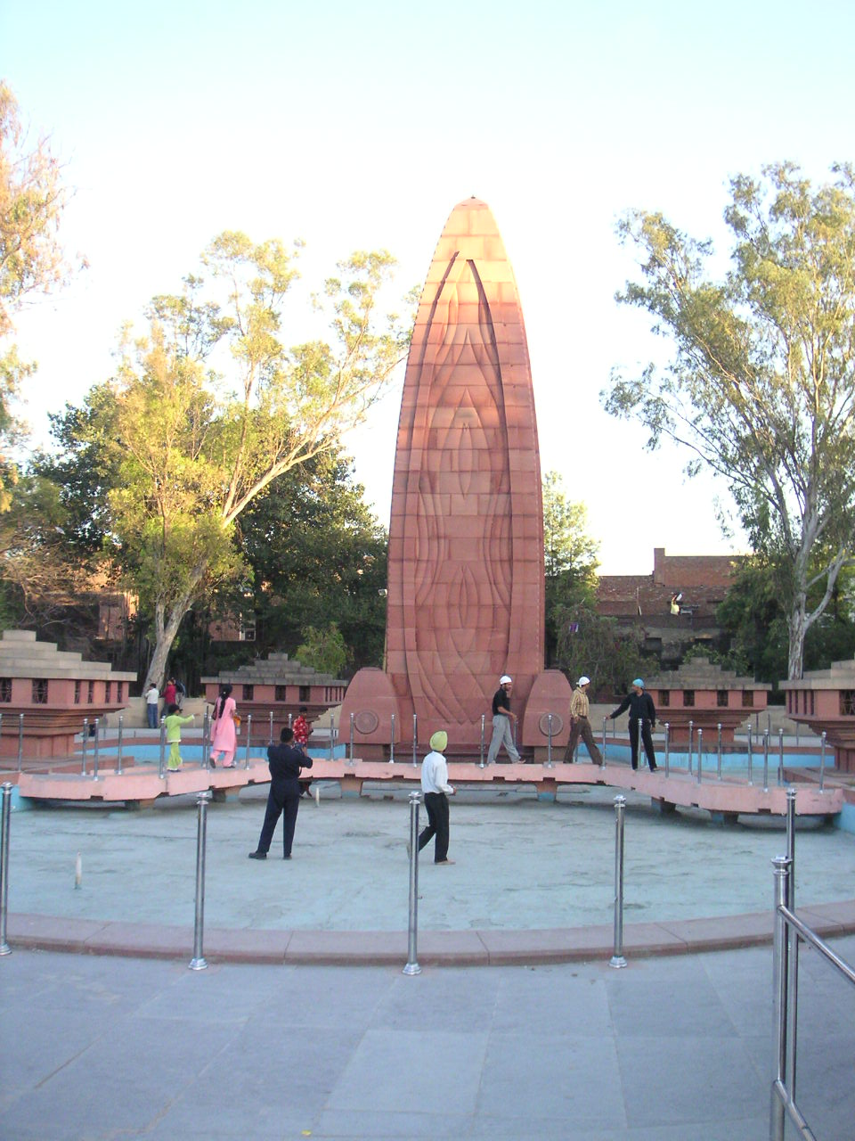 Memorial over the Jallianwala Bagh massacre, in Amritsar, Punjab, India, Photo: Soman